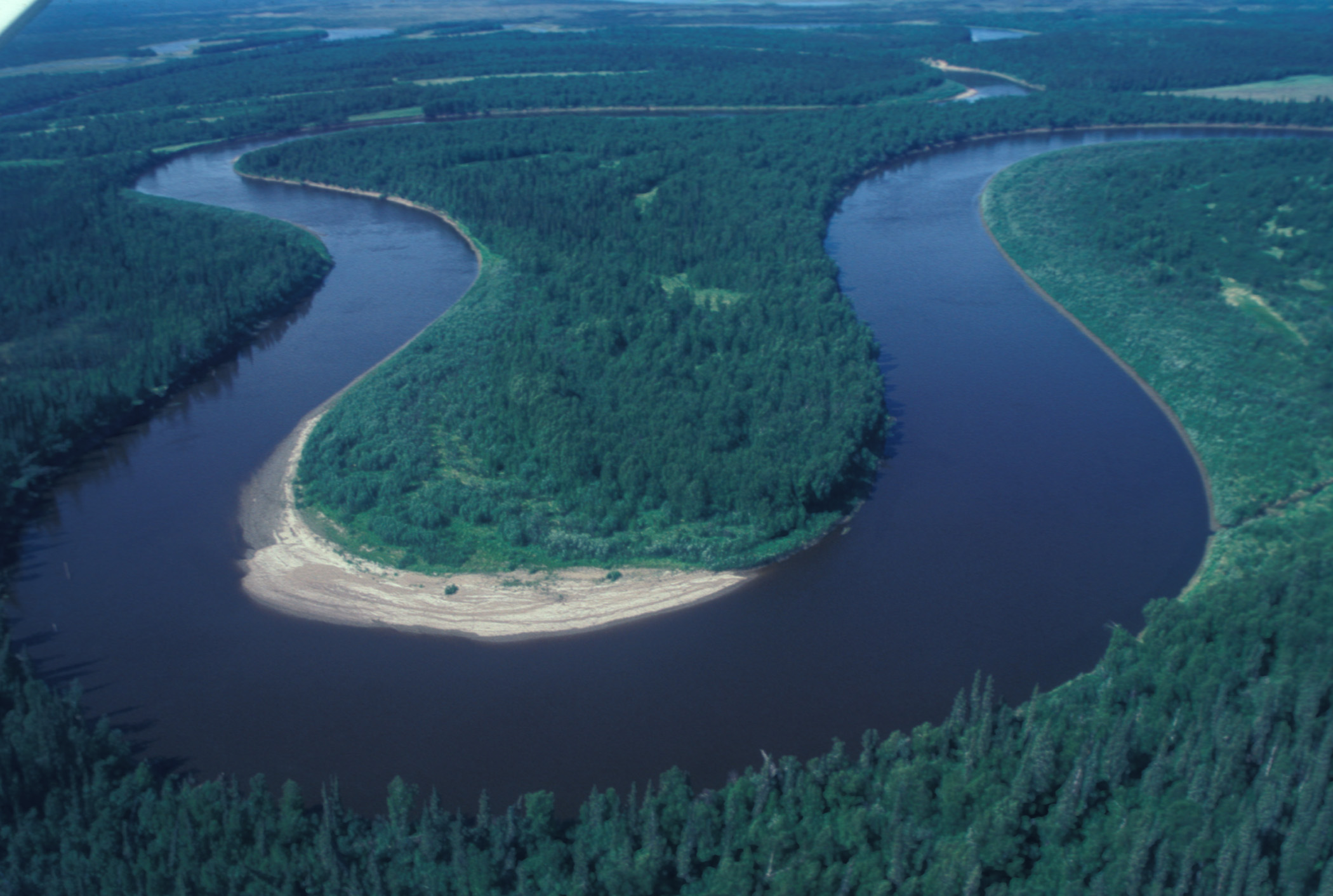 Meandering River, Innoko National Wildlife Refuge